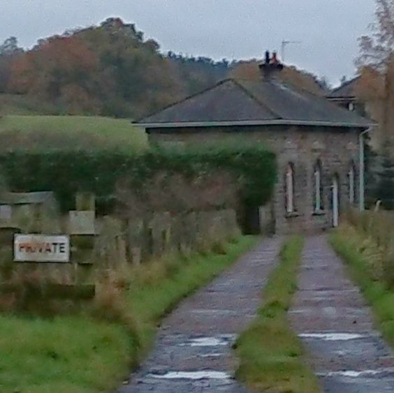 This building closely resembles the base of the water tank in old photos of the station site.